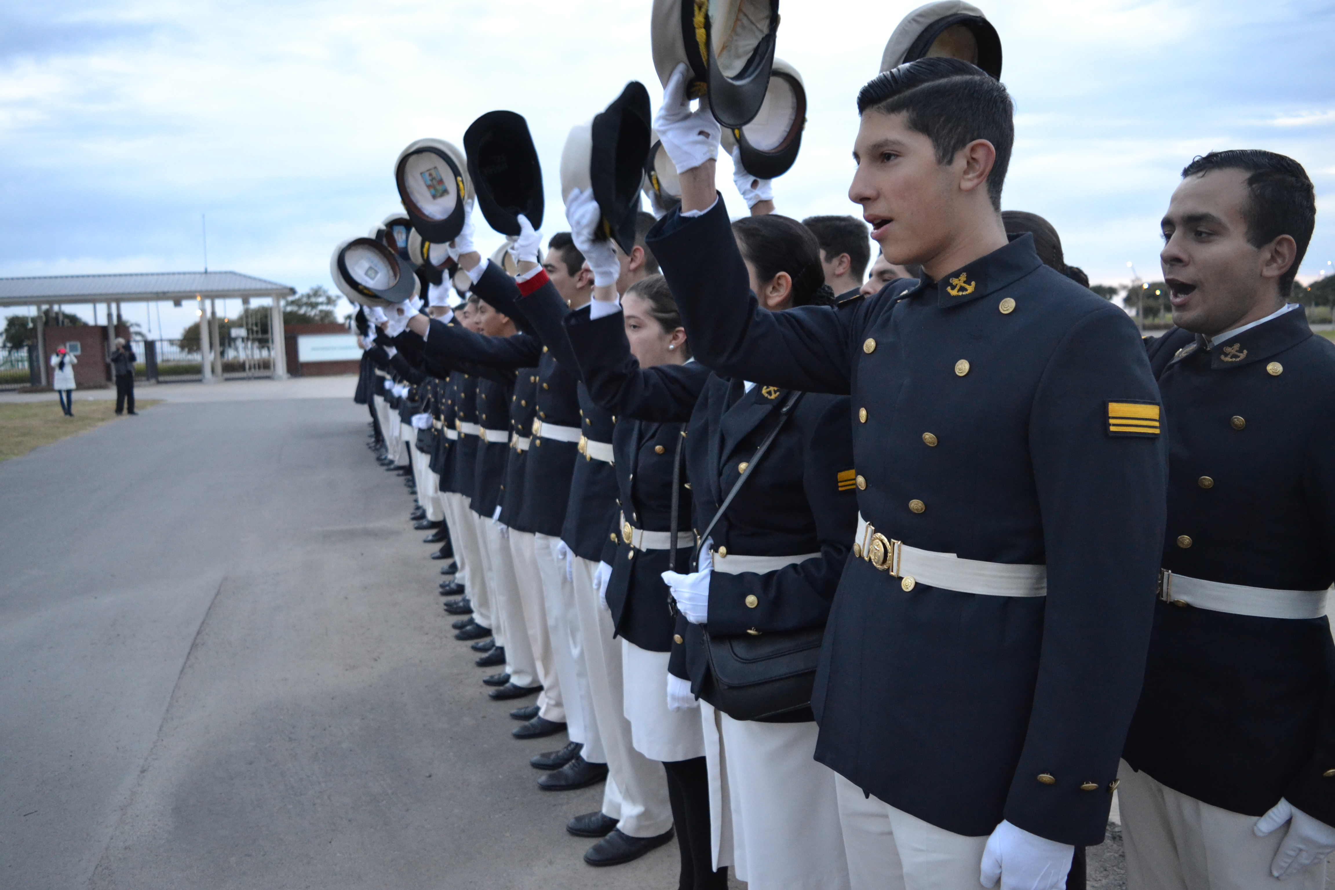 Cadetes del Liceo Naval Militar "Almirante Guillermo Brown" gritando un "hurra" en una ceremonia